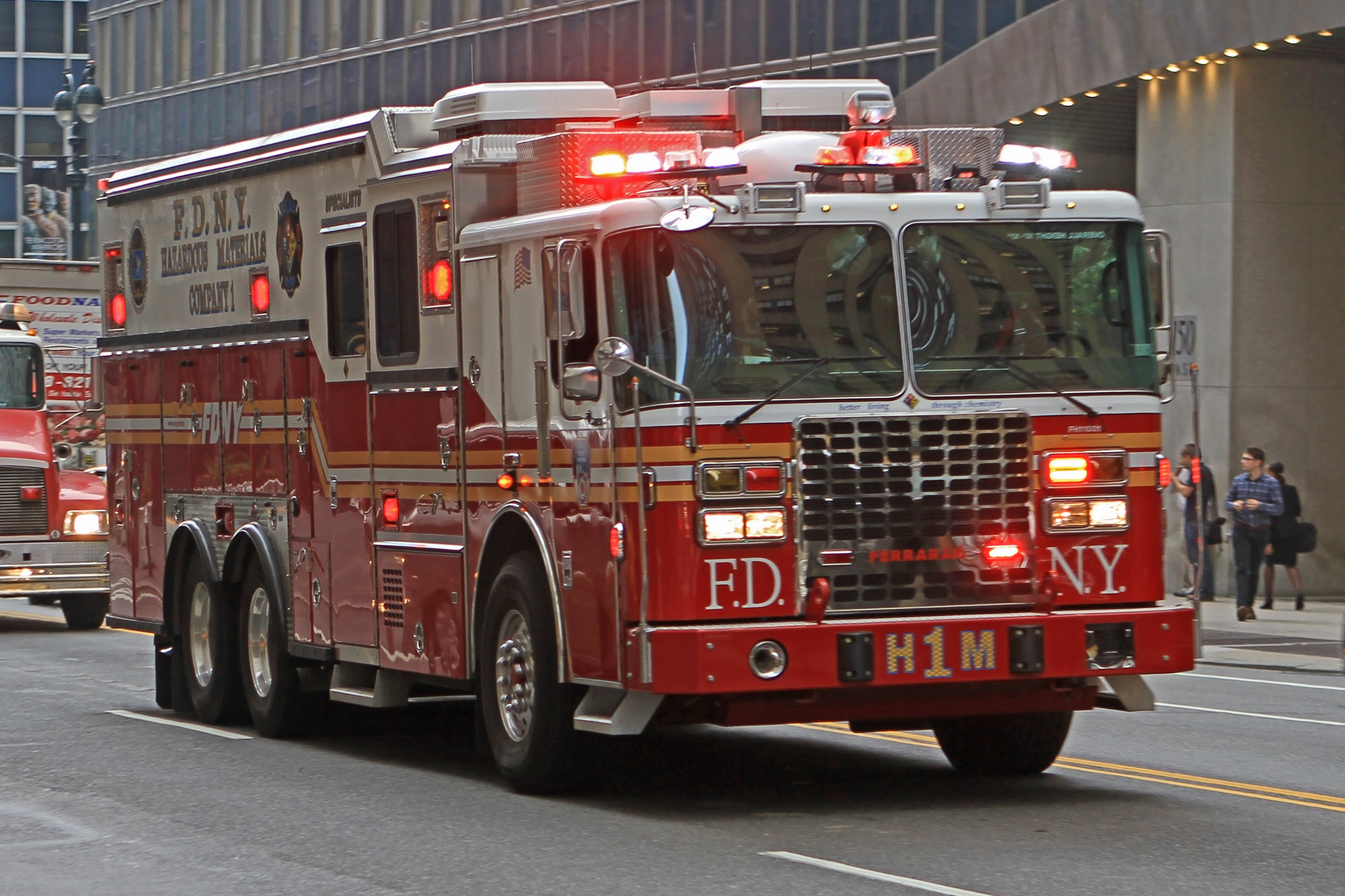 FDNY - Hazardous Materials Company 1 (HazMat 1)